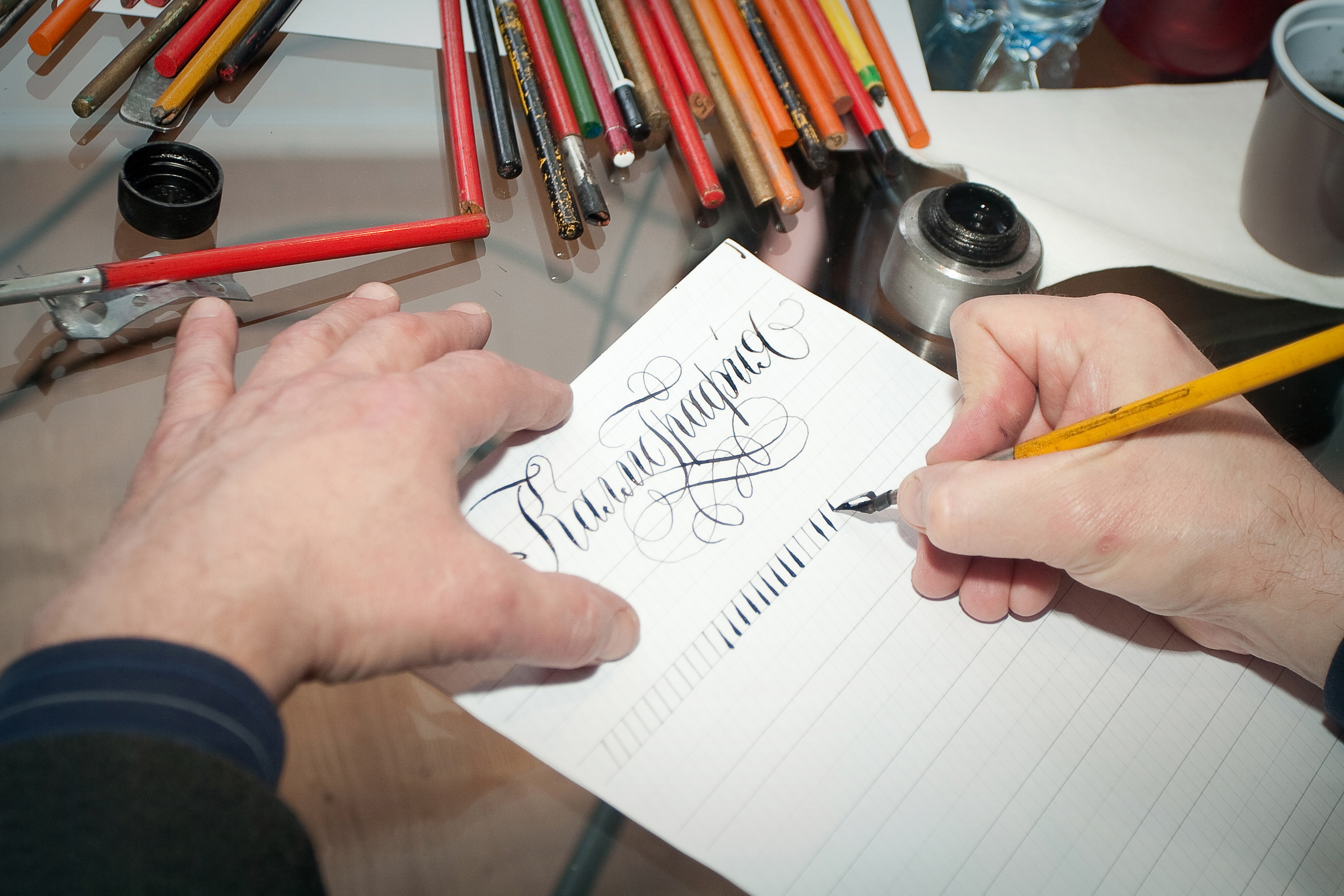 This photo was crated during the open lesson